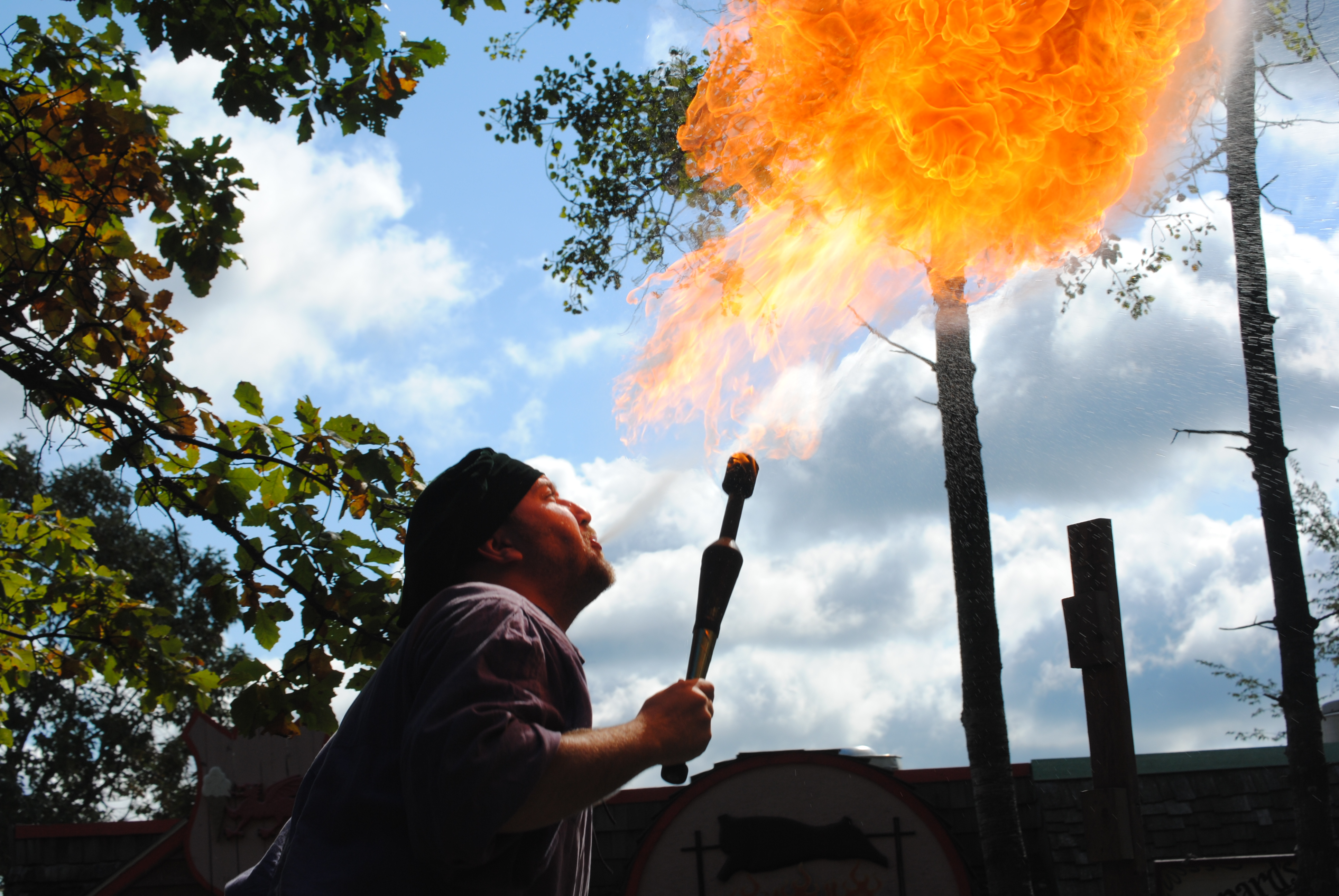 Firebreather taken and the 2010 Michigan Ren Faire.